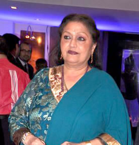 Bindu at Sun N Sands' 50th anniversary